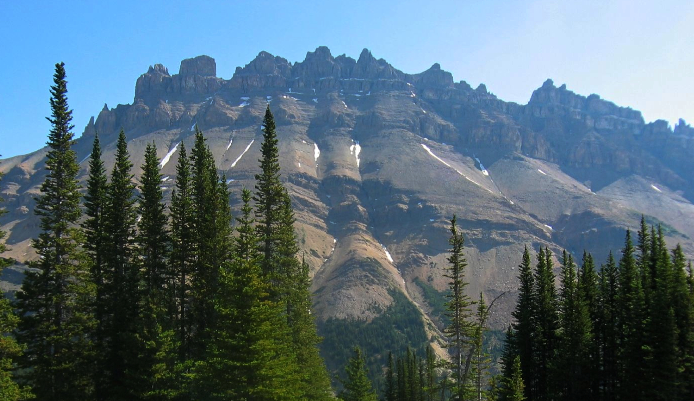 Dolomite Peak in Banff National Park, Canada